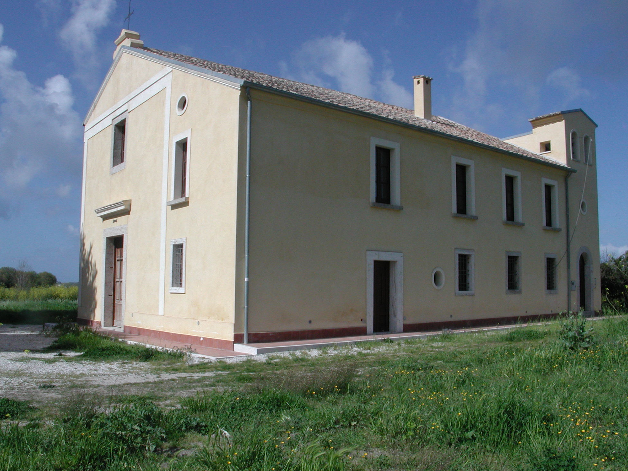 San Vito al Sele church, at Eboli, place where, according the traditions, Saint Vitus was killed